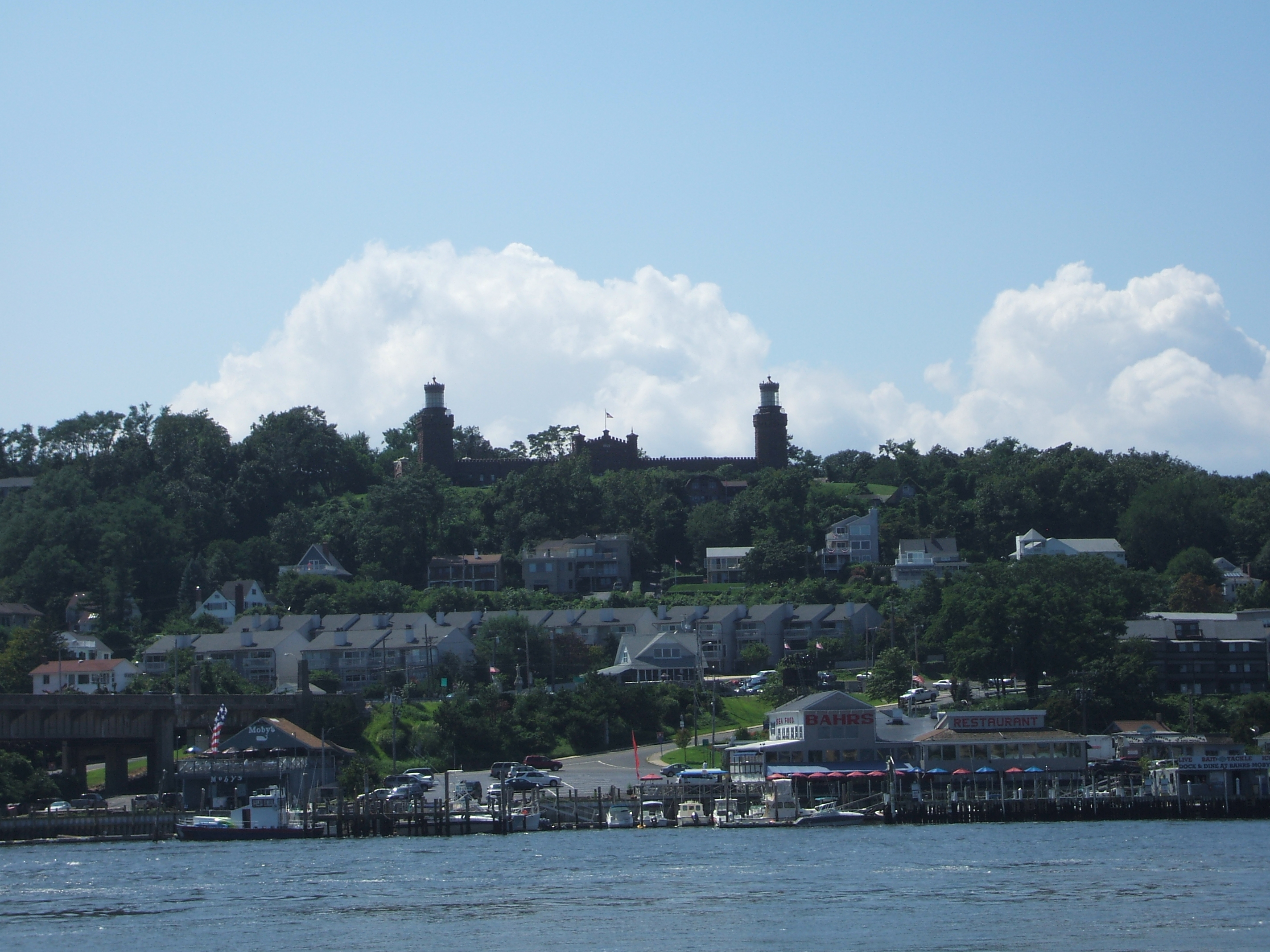 Photo of the Navesink Twin Lights from Sandy Hook, New Jersey. Taken on August 27, 2007 by Glynn R. Schloendorn from Fort Worth, Texas